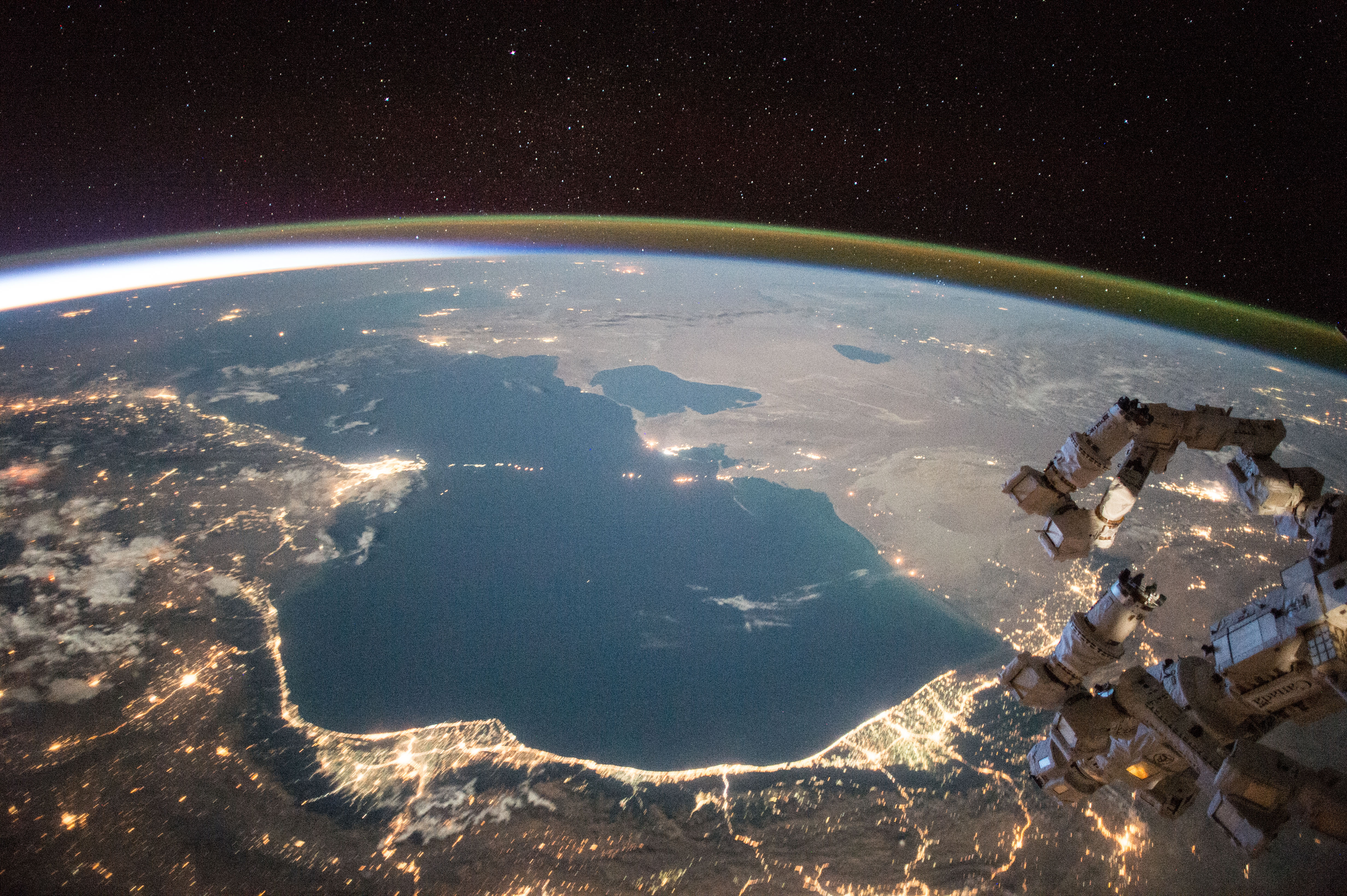 NASA astronaut Scott Kelly captured this earth observation of the Caspian sea on July 27, 2015 while onboard the International Space Station.